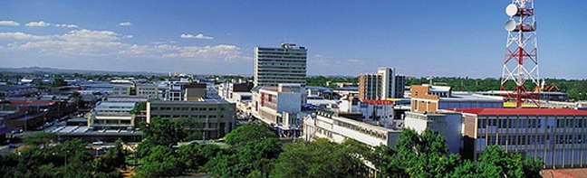 New Image of the Polokwane City in Limpopo South Africa